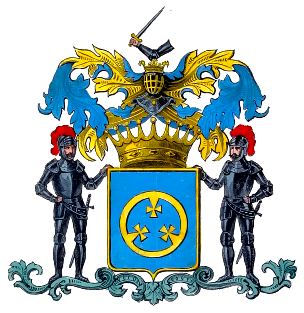 Coat of Arms of Count Ledochowski family